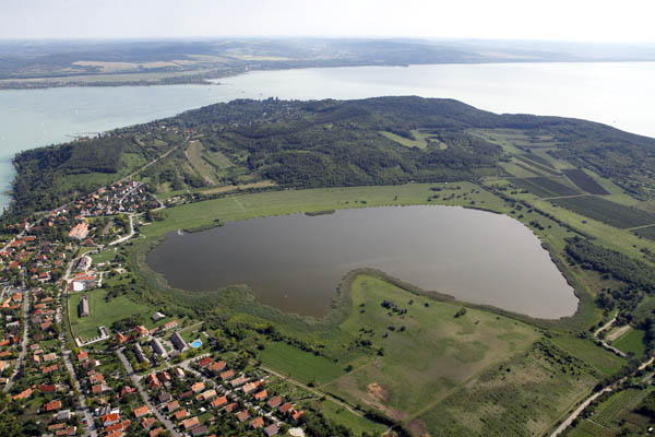 Tihany, Veszprém county, Hungary. Aerial photography